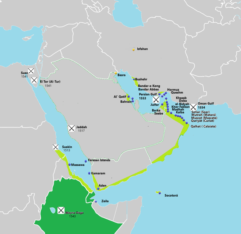 Portuguese in the Persian Gulf and Red Sea.Light Green - Possesions and main cities . Dark Green - Allieds or under influence. Yellow - Main Factorys.